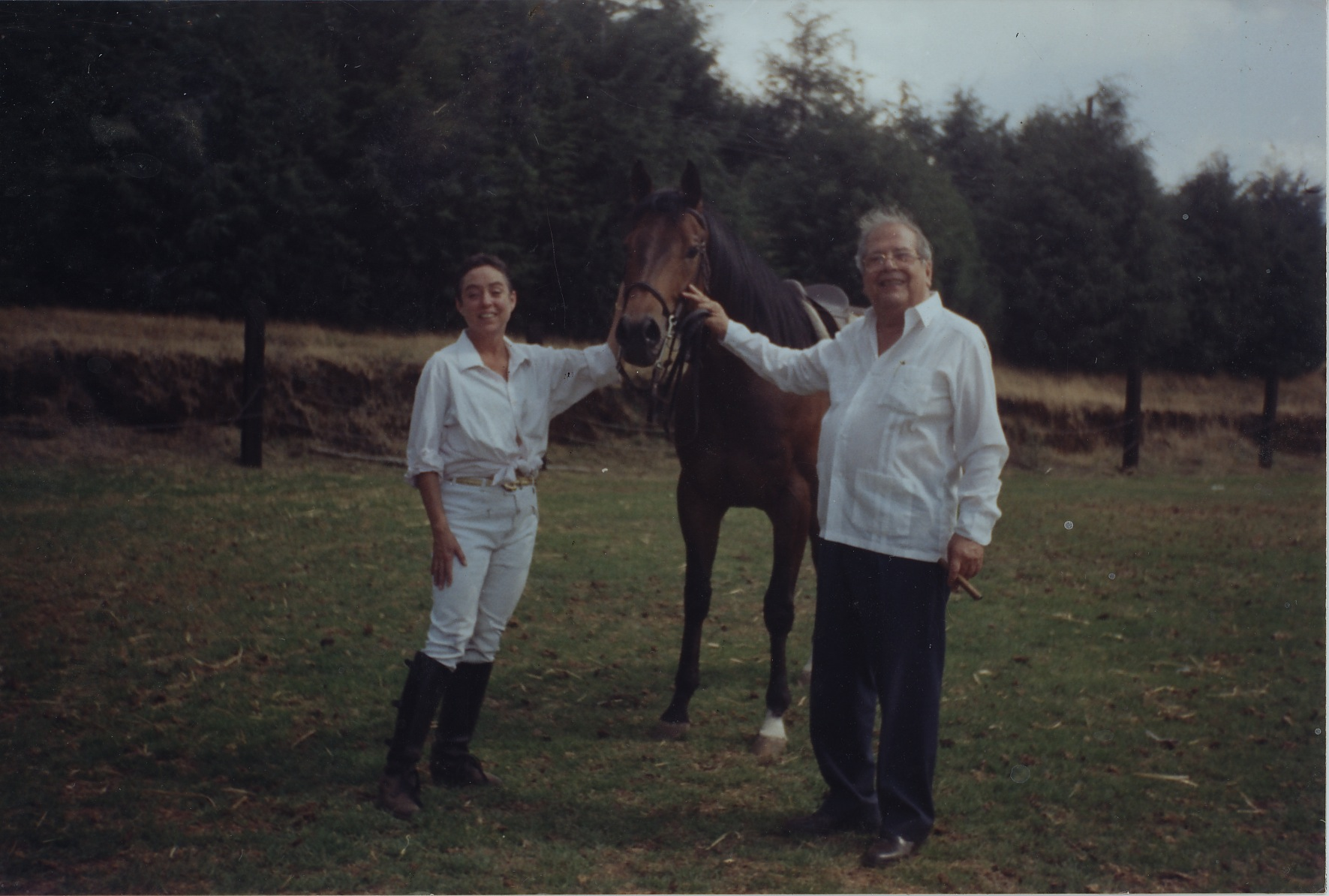 Armando Ayala Anguiano y su segunda esposa, Esperanza Bolland.